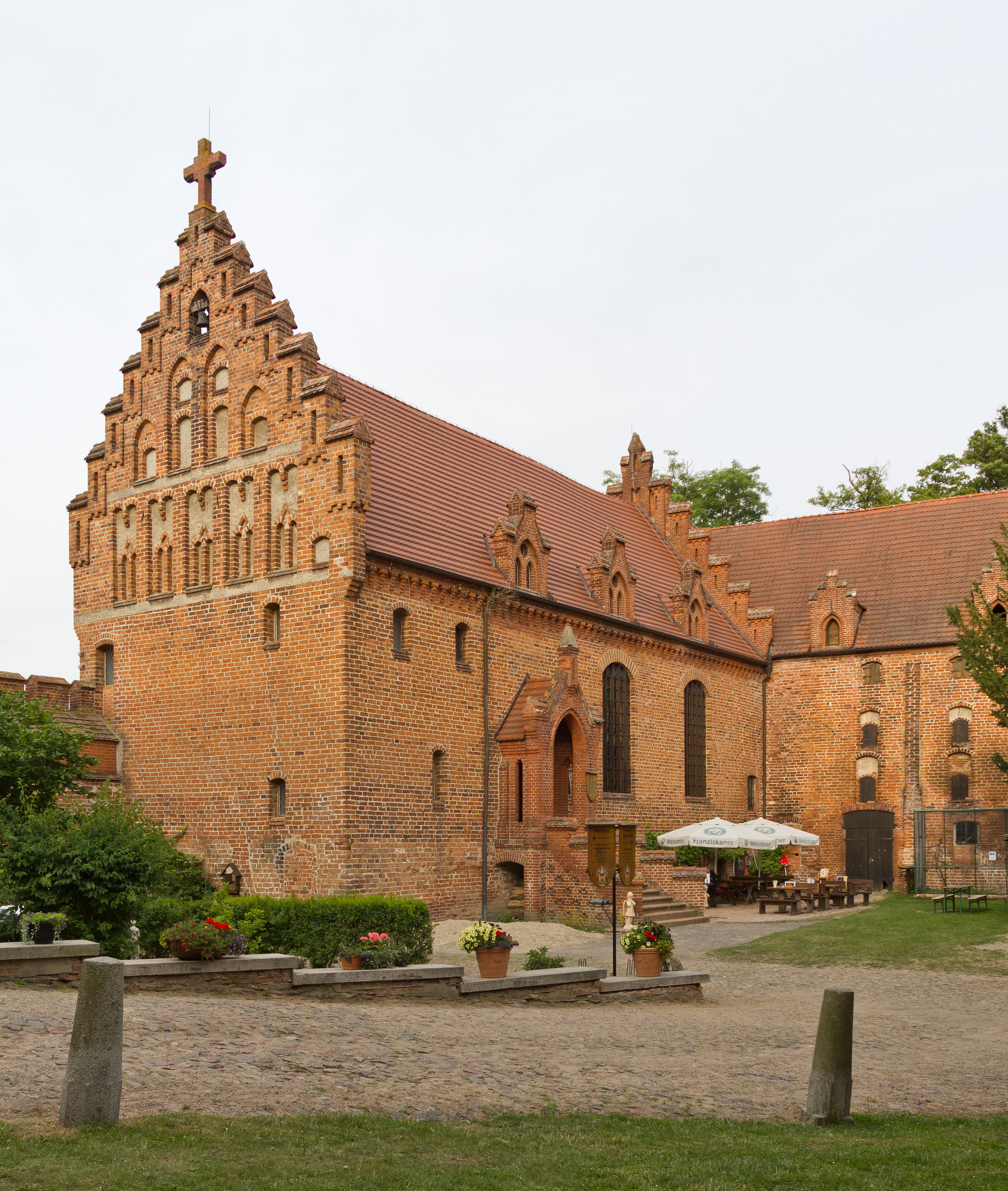 Plattenburg Castle, Brandenburg, Germany.